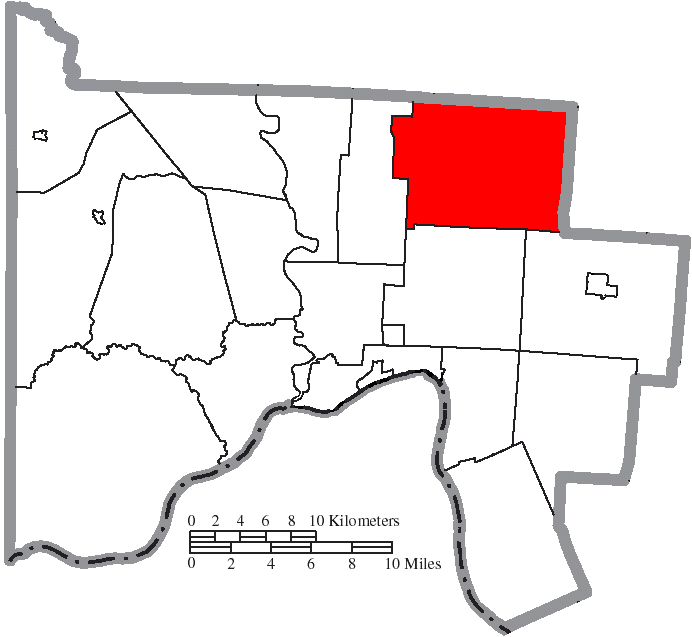 Map of the municipal and township boundaries of Scioto County, Ohio, United States, as of the 2000 census, with the location of Madison Township highlighted. Township borders are shown only in unincorporated areas in order to differentiate incorporated and unincorporated areas more clearly.